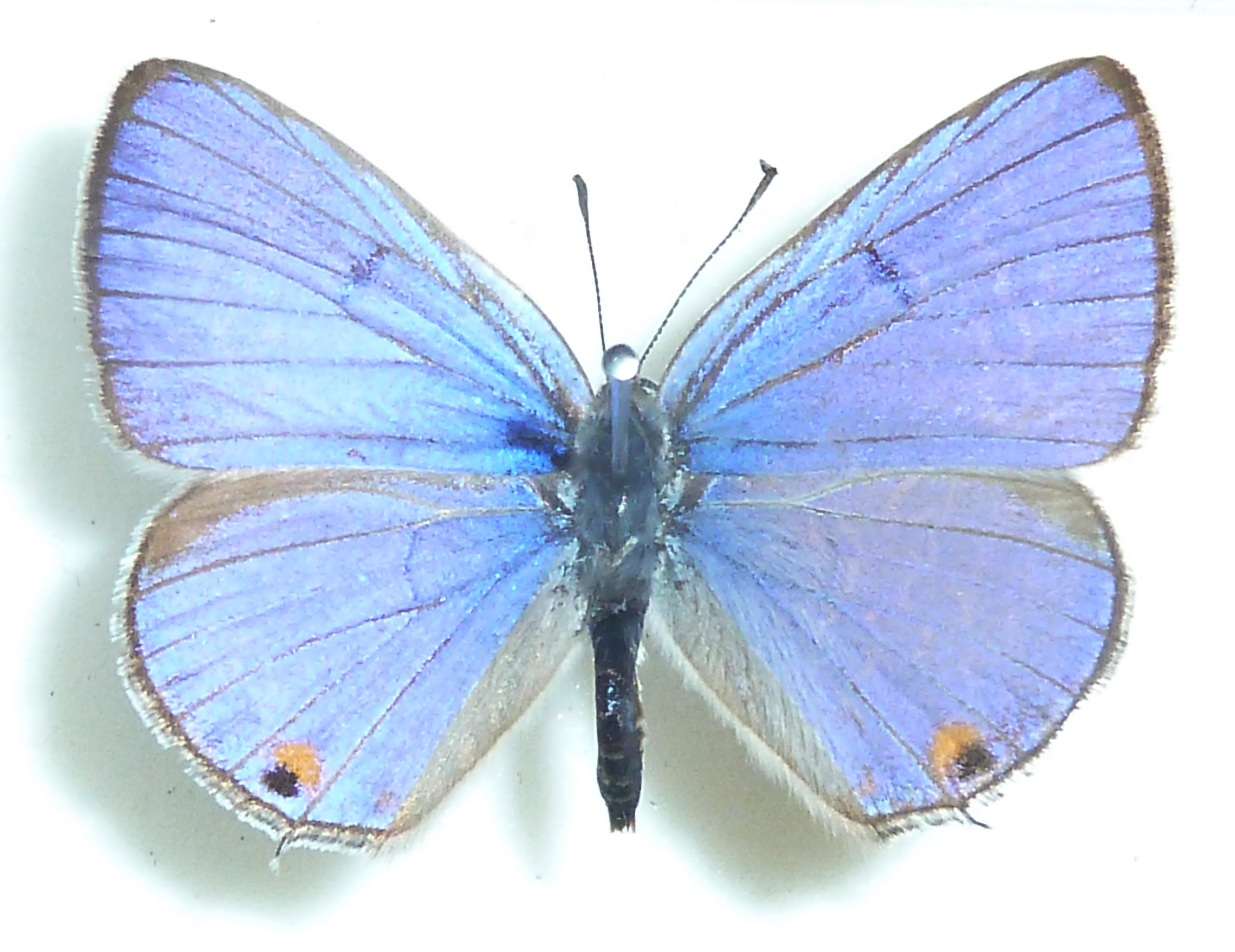 Patrician blue in J Dobson's collection